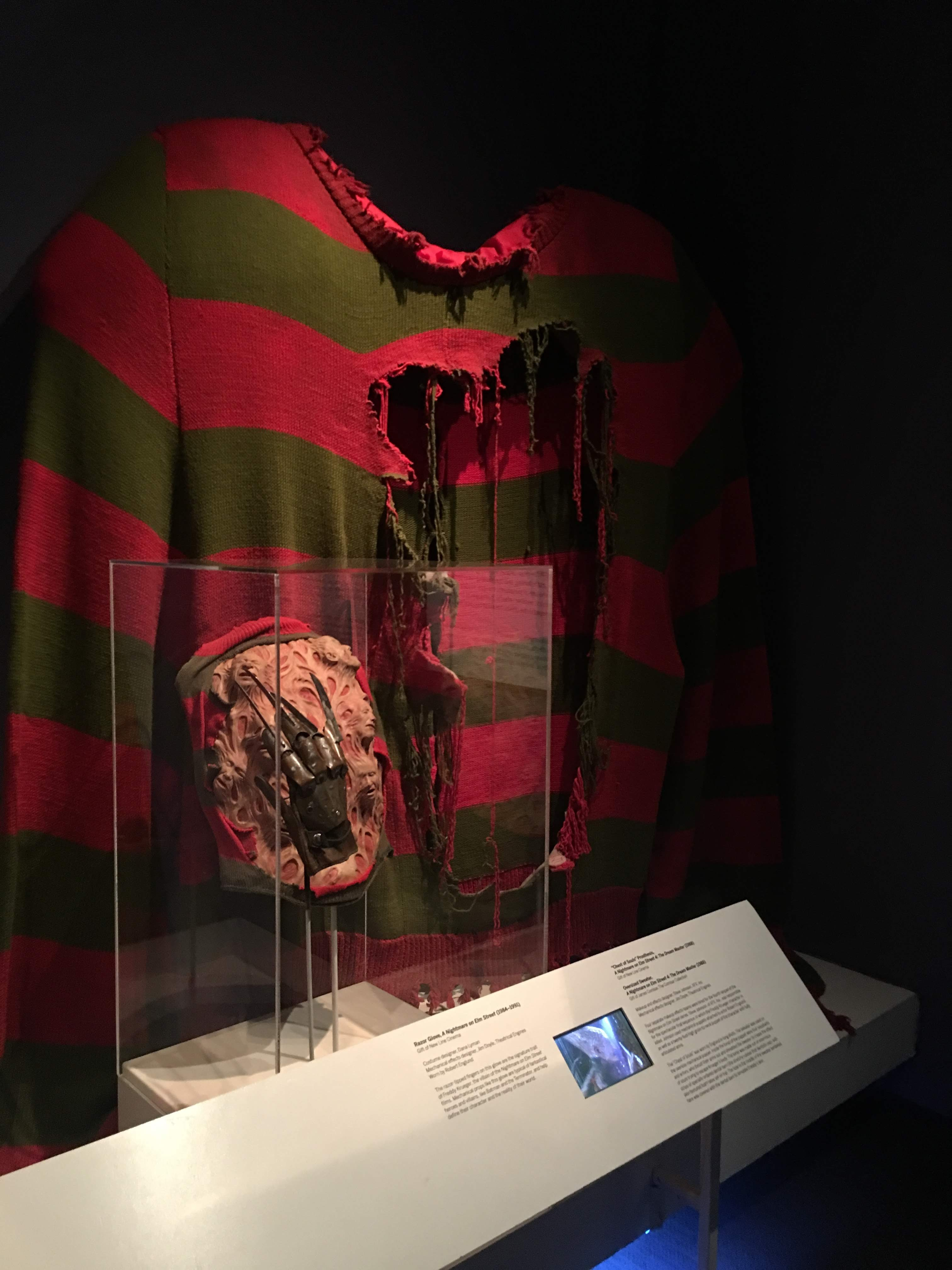 Photo of Razor Glove, Nightmare on Elm Street (1984-1991)